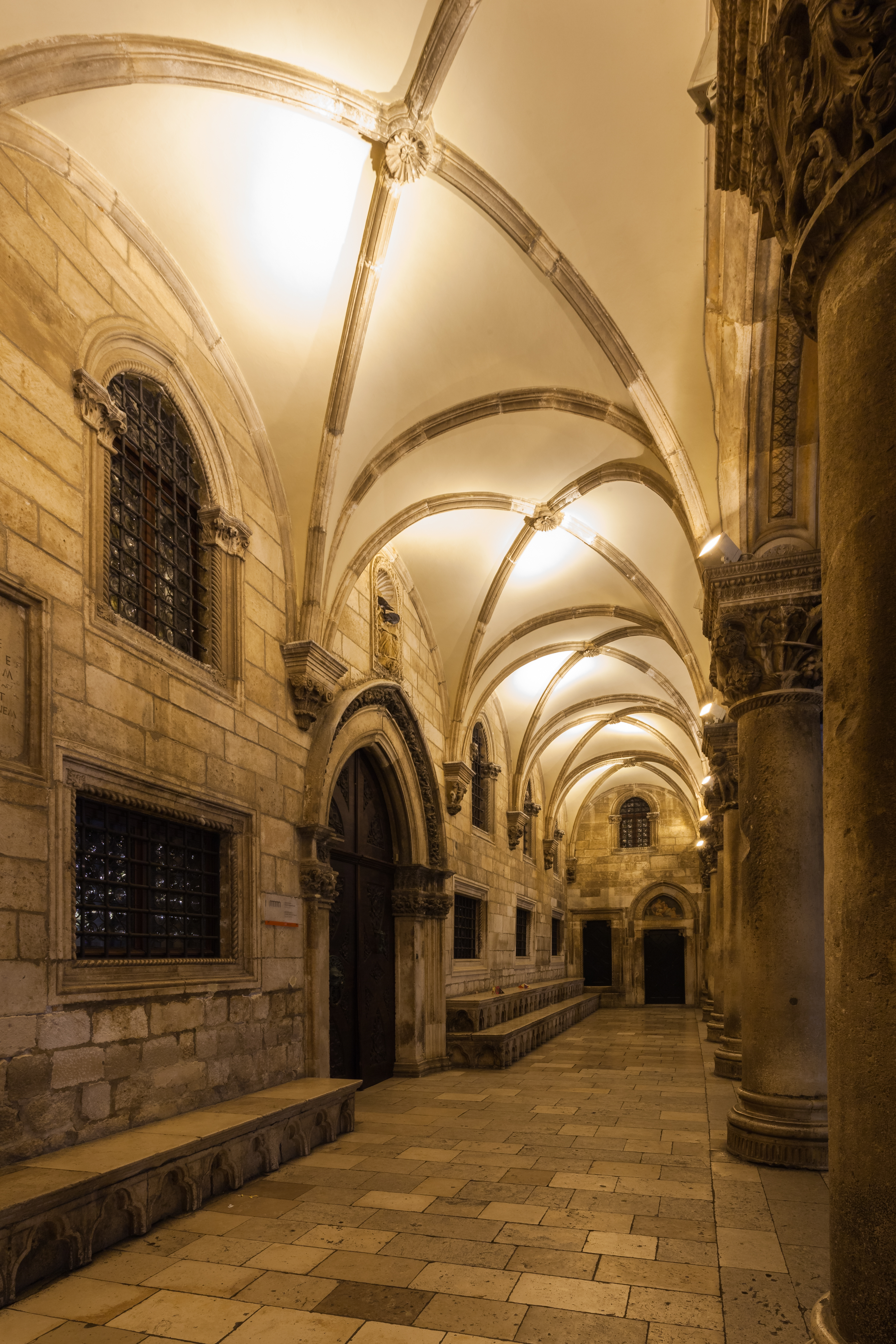 Rector's palace, Old city of Dubrovnik, Croatia